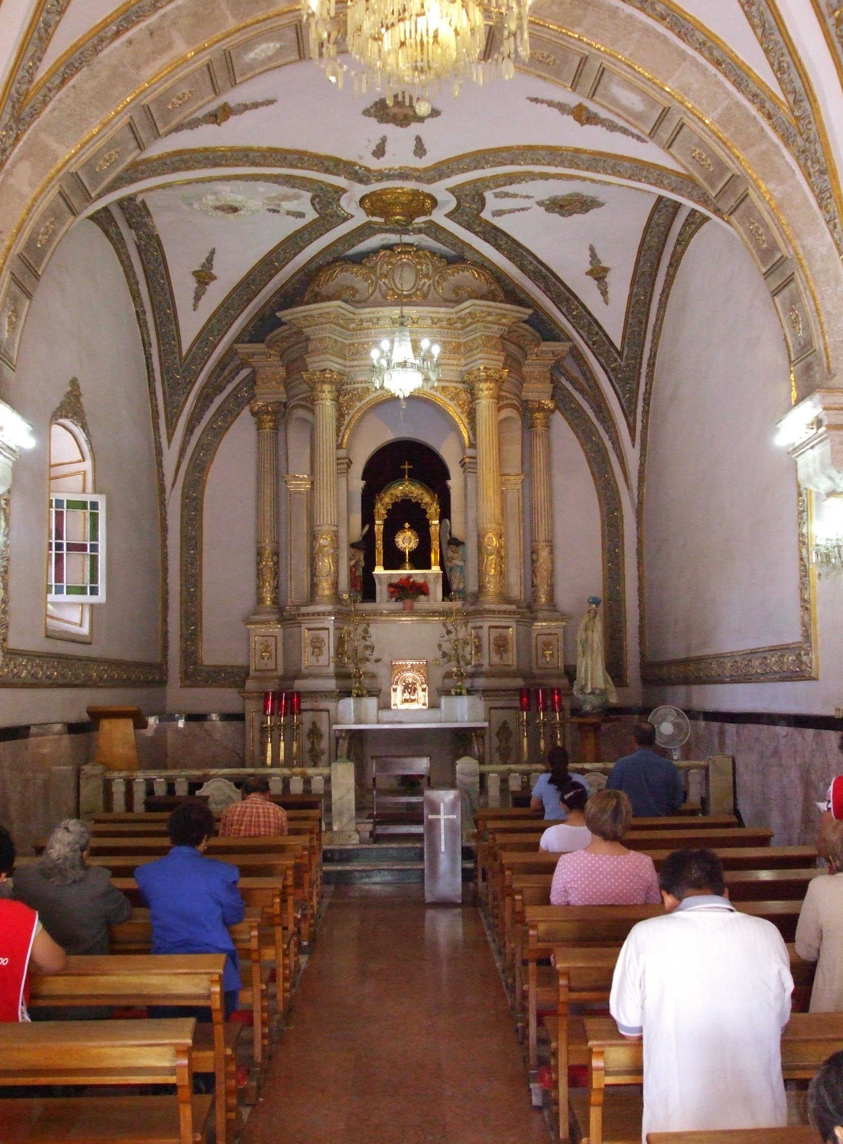 Cathedral Blessed Sacrament Chapel interior, Chihuahua, Mexico, before restoration.